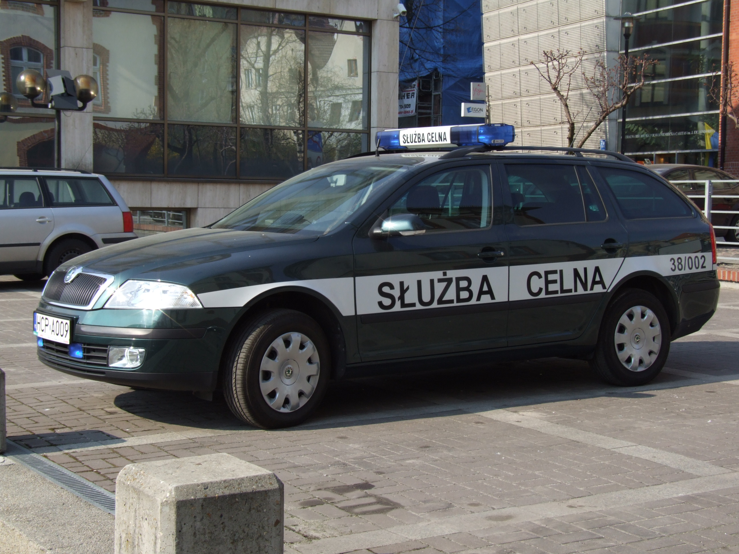 Car of Customs Service in Poland. Opole (Uopole, Oppeln)